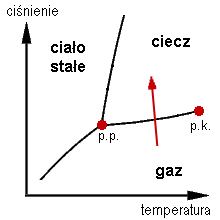 Condensation